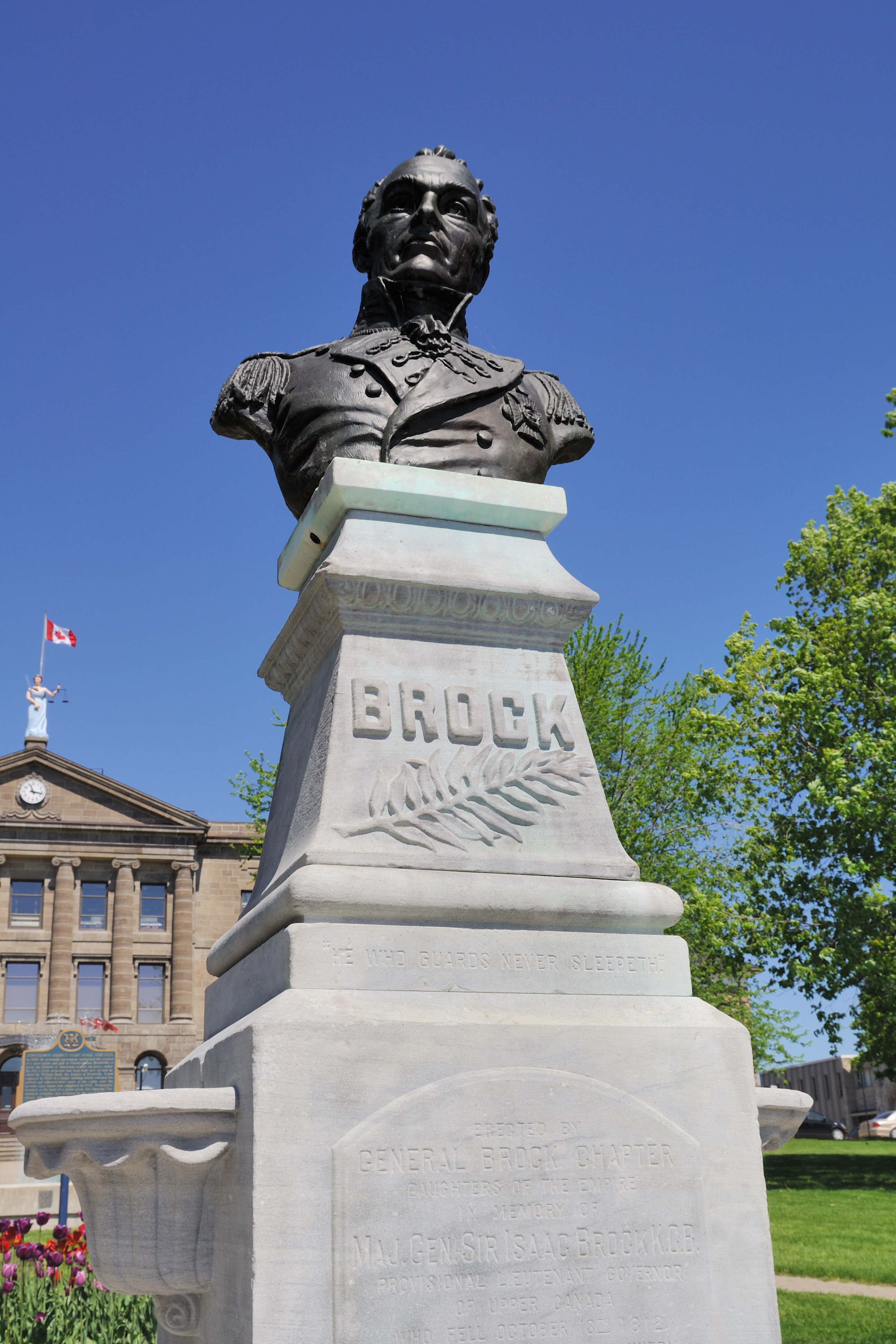 Brockville, Canada: bust of Isaac Brock